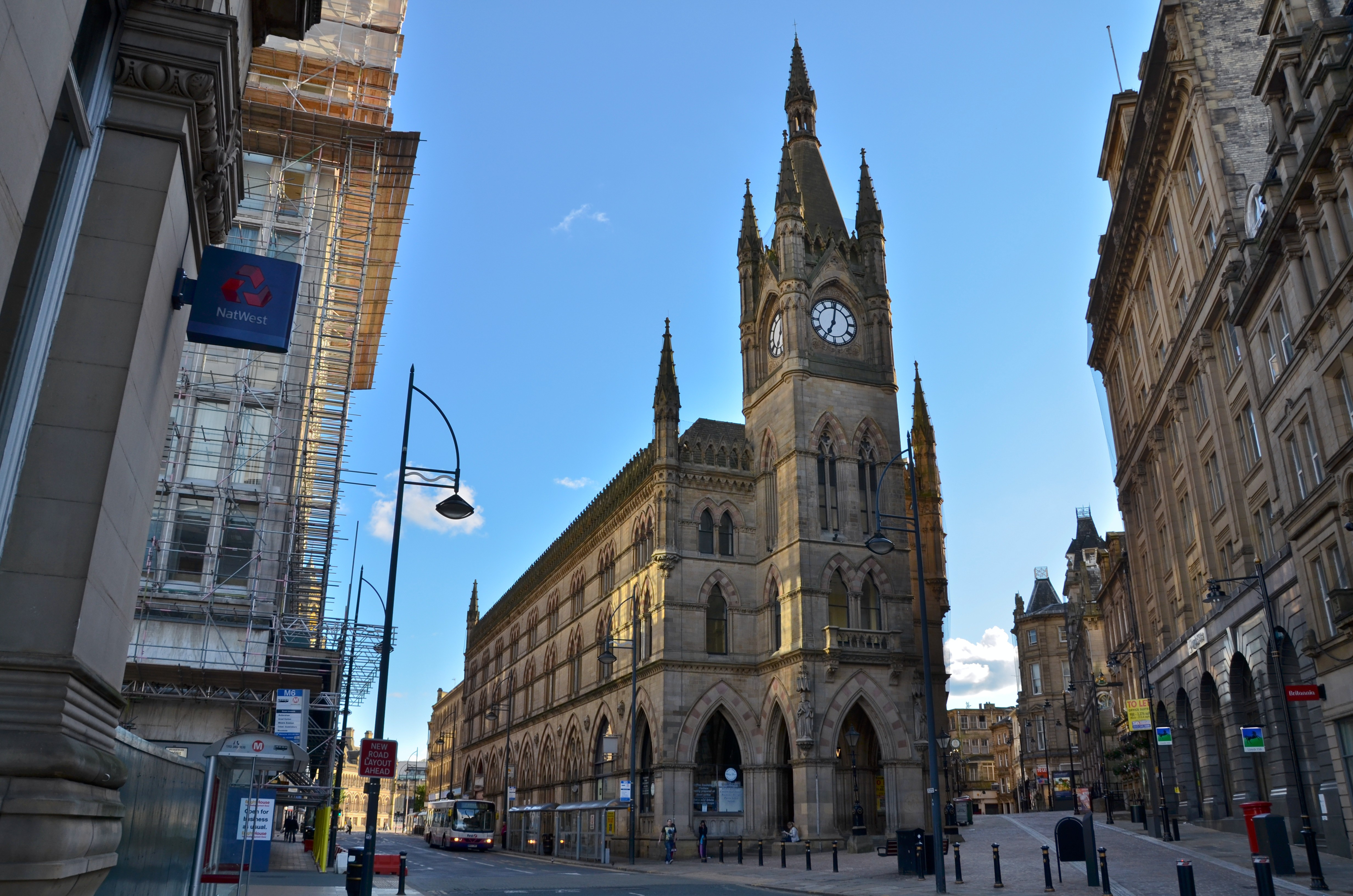 The Wool Exchange in Bradford, West Yorkshire, United Kingdom